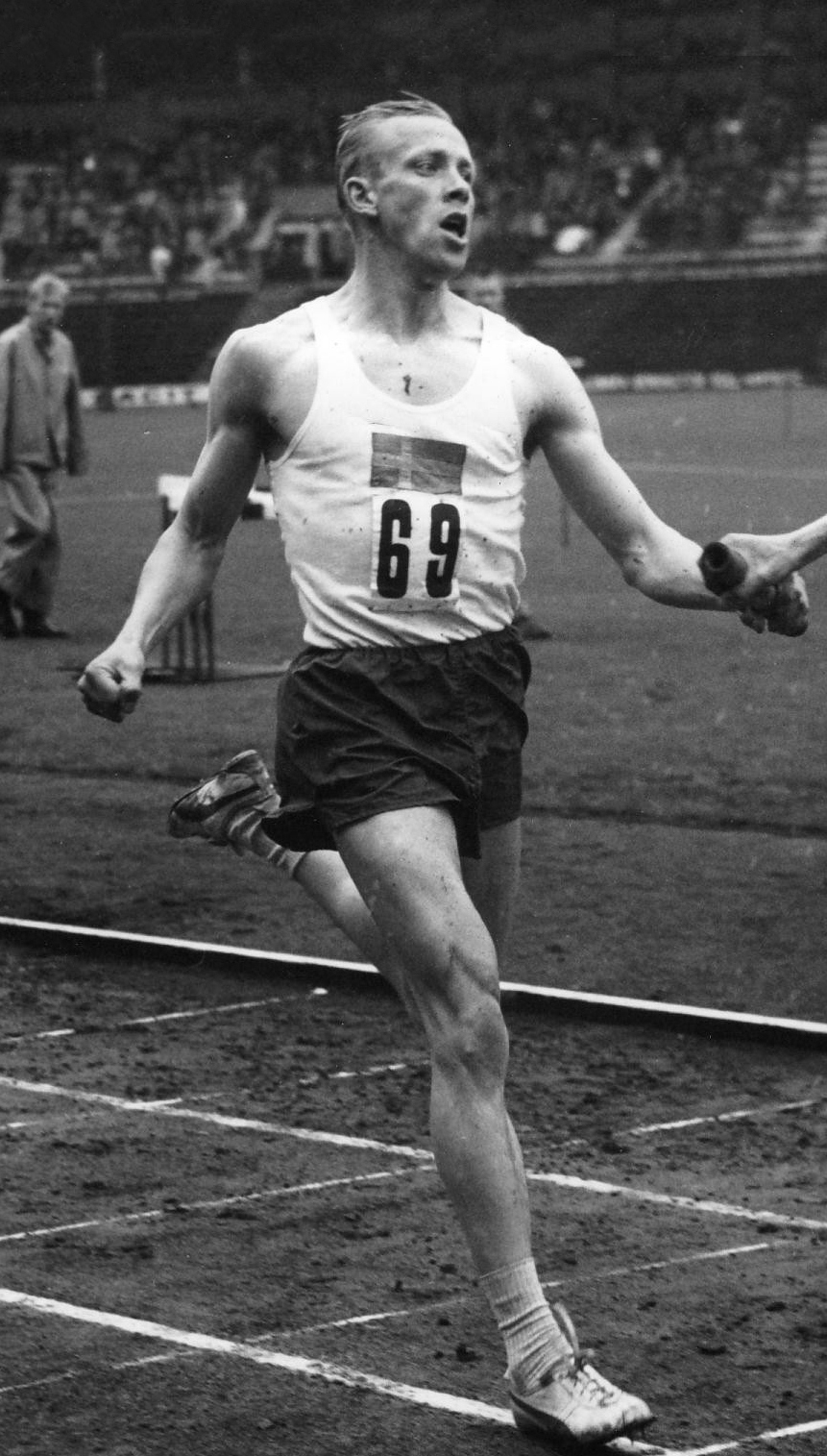 Hans-Olof Johansson at the Sweden-East Germany meet in 1962